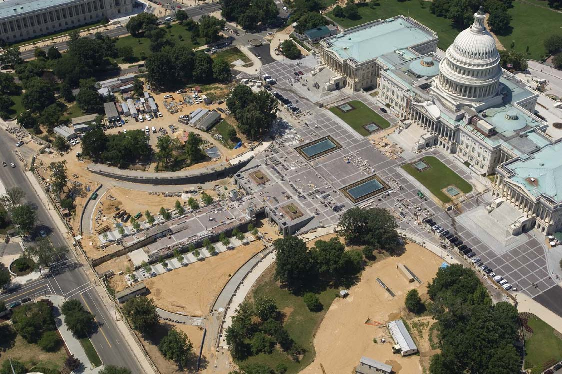 The Capitol’s East Front Plaza is gradually taking on a more finished appearance as evidenced in this aerial photo taken on June 12, 2007. More than 200,000 eight-inch square paving stones at this point dominate a plaza that had been covered with asphalt when excavation began in August 2002. A total of 85 new trees will replace the 68 trees that had been removed from the project footprint and 34 new Tulip Poplar trees have already been planted (center left). The historical Frederick Law Olmsted-designed fountains and lanterns have been reassembled in their original locations (center of photo). A new irrigation system has been installed in the Senate “egg” (foreground right) and the area is being cleared to prepare it for new topsoil deliveries expected later this week. Curving approaches that gently slope to the Capitol Visitor Center entrances respect the intent of the Olmsted landscape, which emphasized the presentation of the Capitol as a key element to the park-like setting.